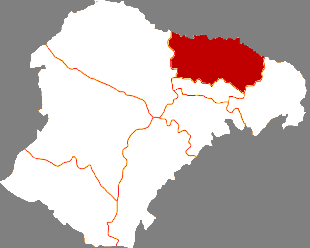 Locator map of Dalad Banner in Ordos City, Inner Mongolia, China